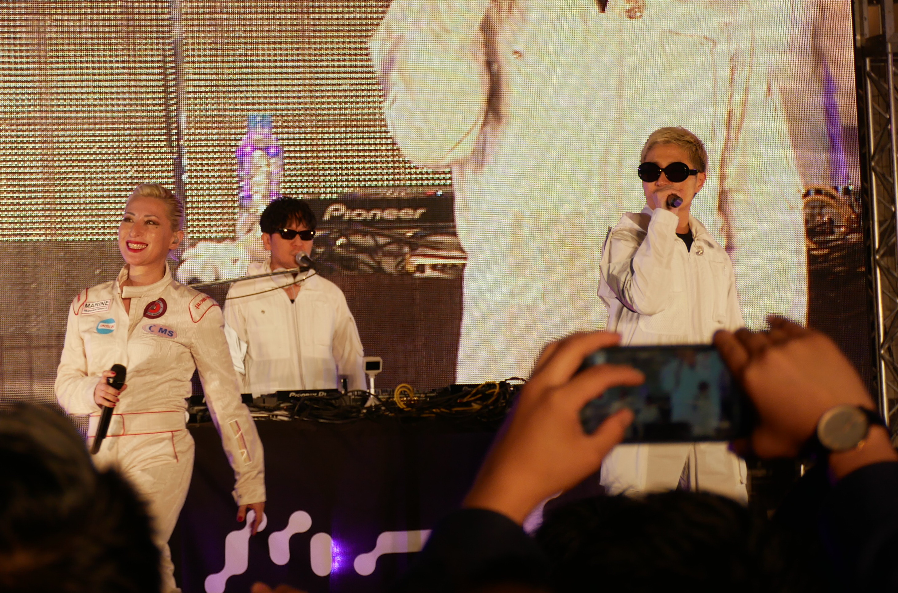 M-Flo (エムフロウ Emu Furō, stylized as m-flo) Panasonic Lumix DMC-GX7 Mark II